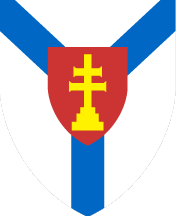 The Coat of arms of the city and municipality of Arilje in Serbia